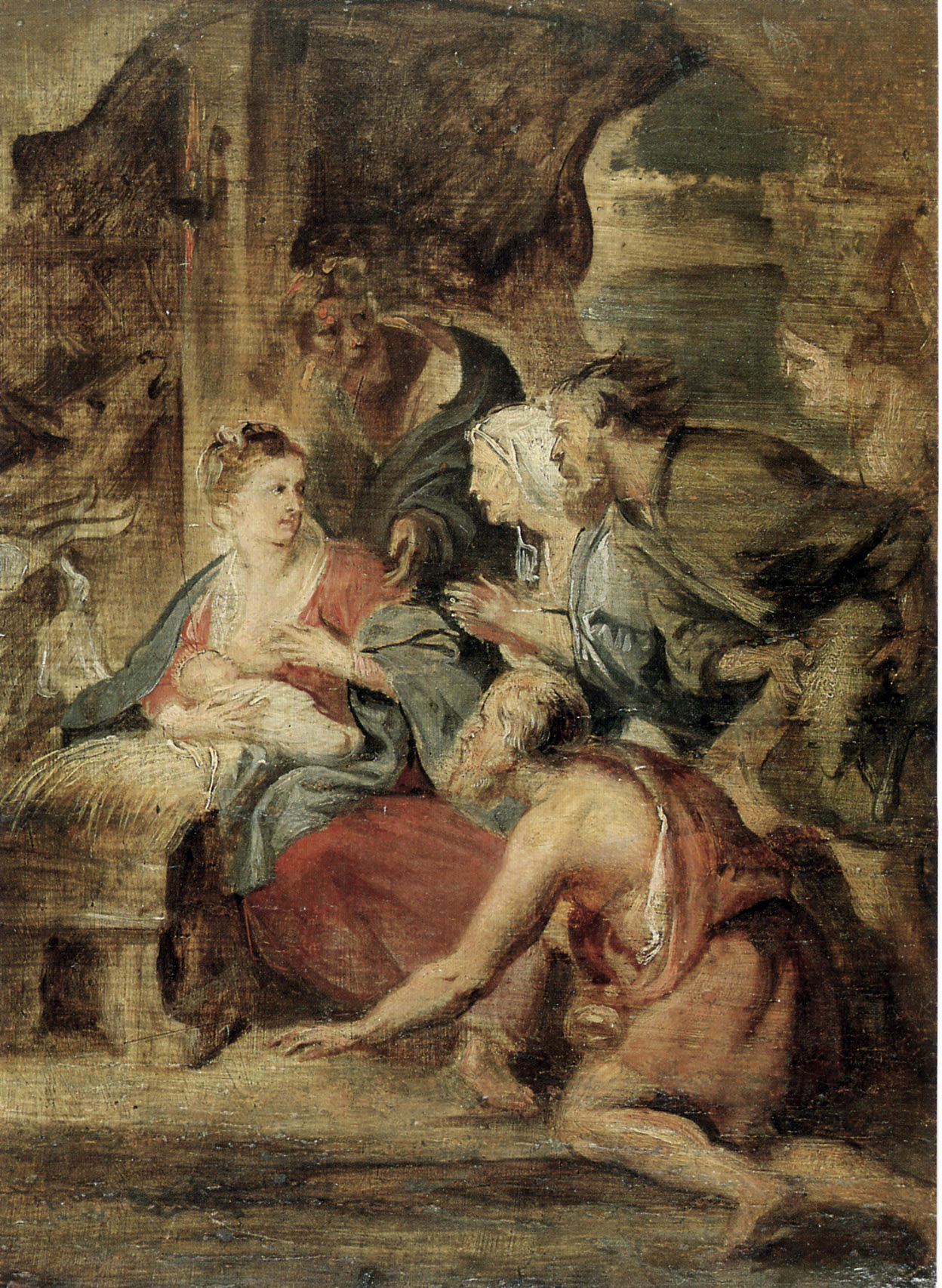 The Adoration of the Shepherds